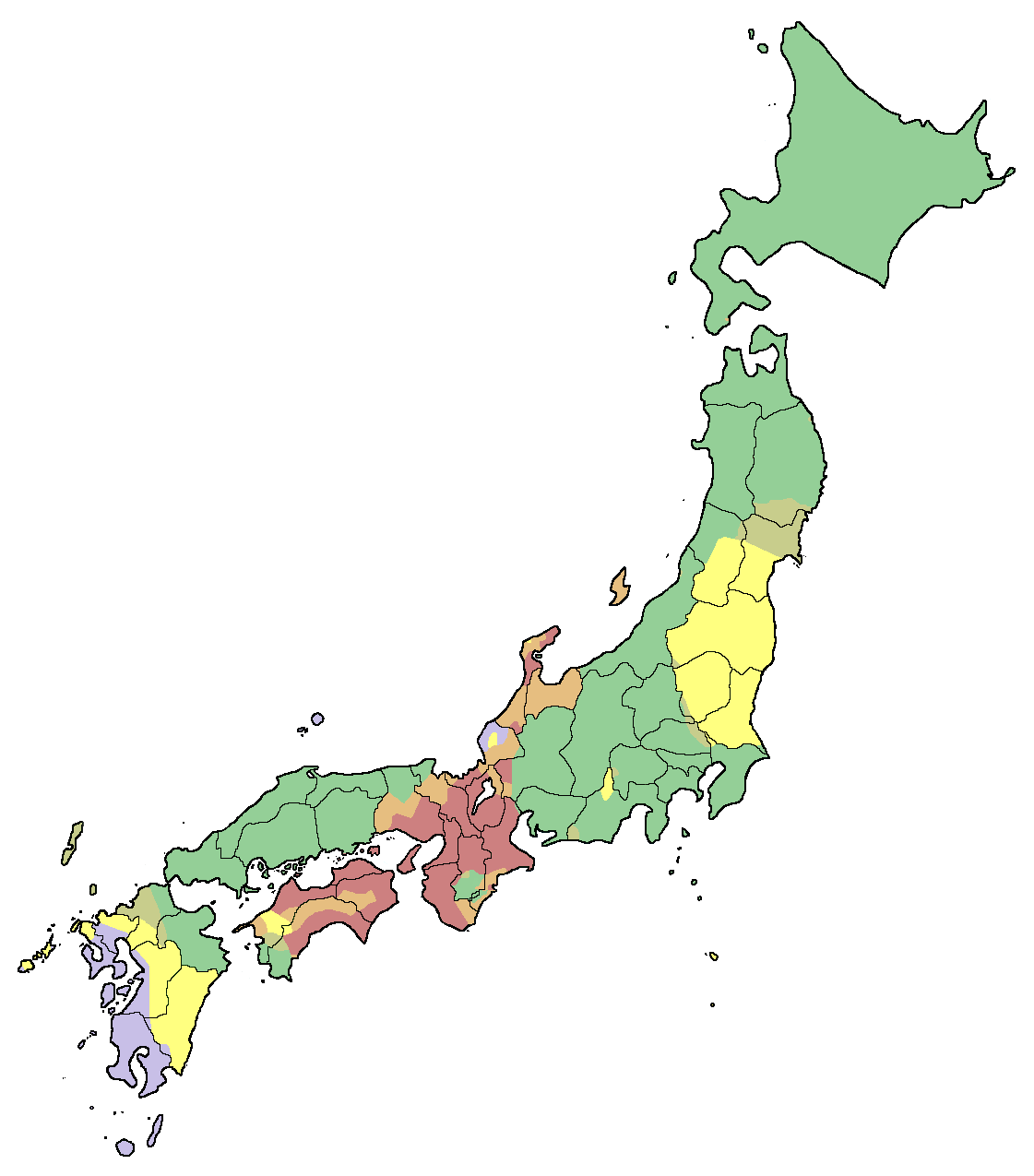 Pitch-accent types in Japan. Keihan type (downstep plus tone) Tokyo type (variable downstep) N-kei type (fixed downstep): including Ikkei (1-pattern), Nikei (2-pattern) and Sankei (3-pattern) accents No accent intermediate (Tokyo–Keihan): including Tarui type and some other Keihan variants without tone system intermediate (Tokyo–none): including some variants of Tokyo type with fewer patterns, and Ambiguous accents